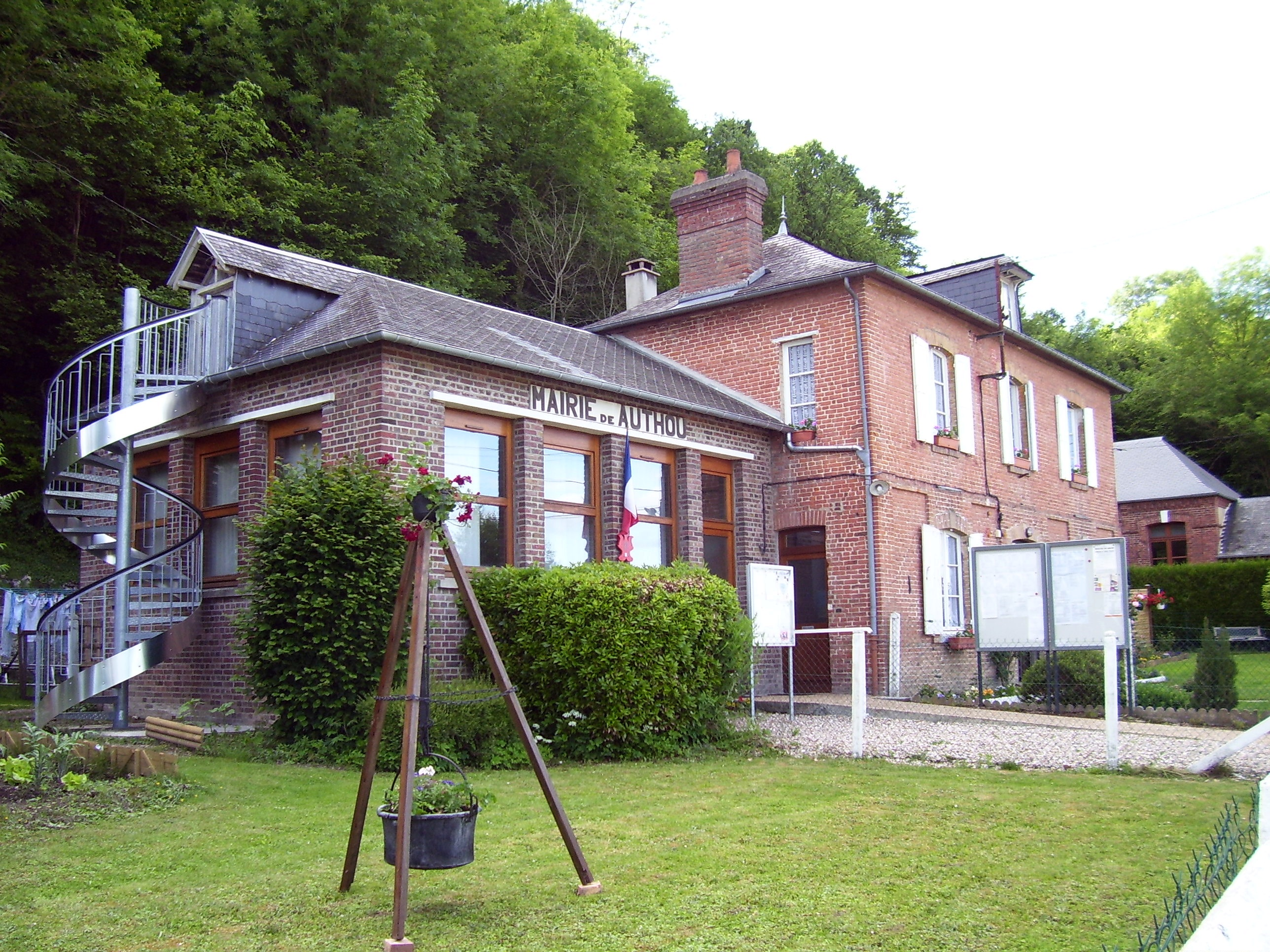 Town hall of Authou (departement Eure, Haute-Normandie, France).